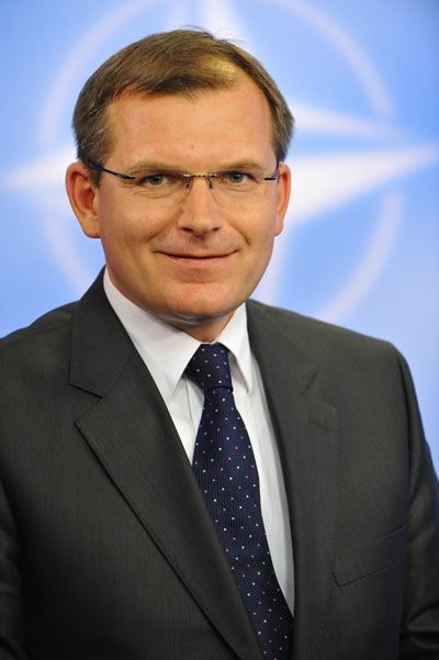 Jiri Sedivy, deputy minister of Defense of the Czech republic